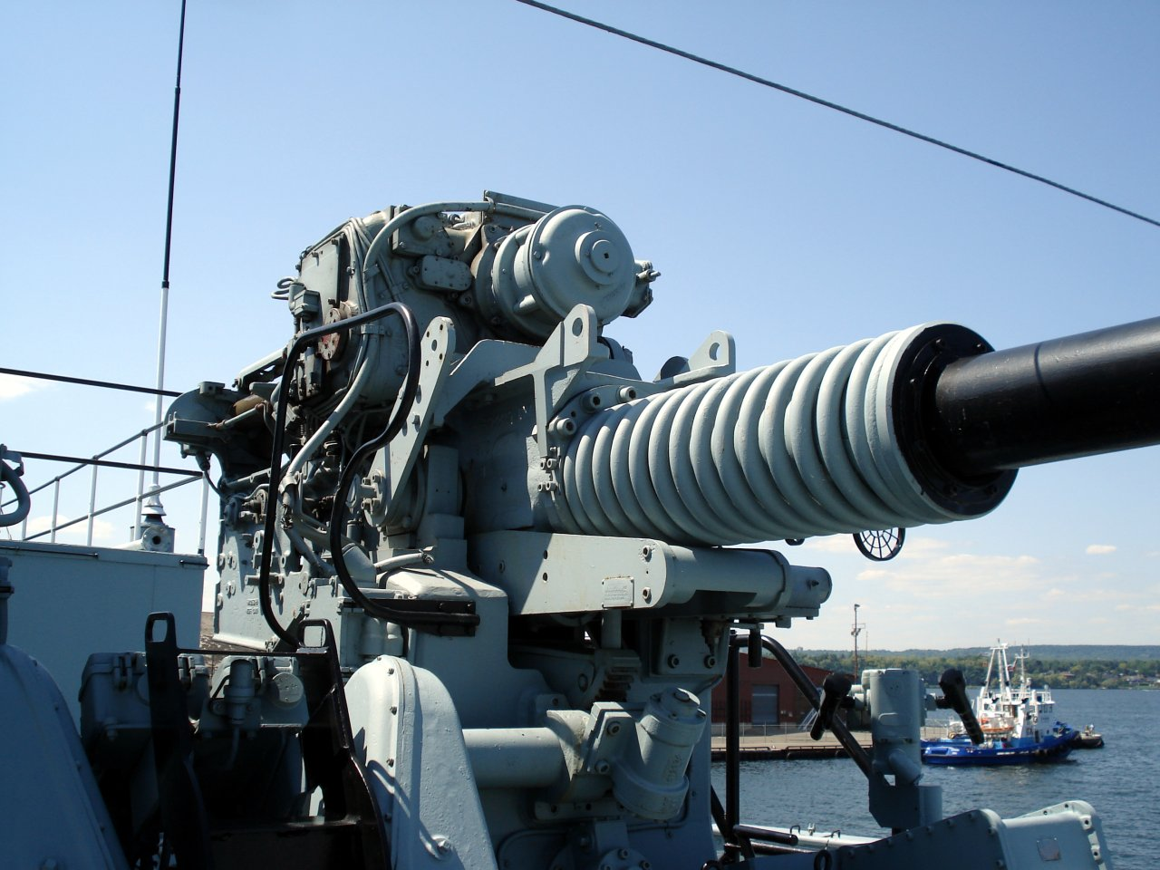 3 inch Mark 33 twin anti-aircraft gun on HMCS Haida